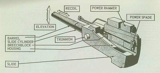 Mk 12 5in/38cal gun assembly. Cropped portion of image scanned from source.